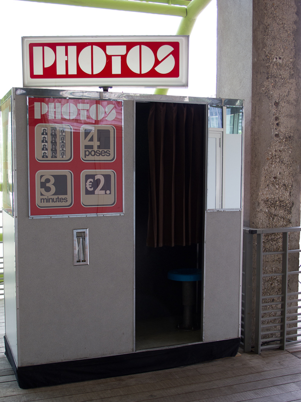 Photo booth